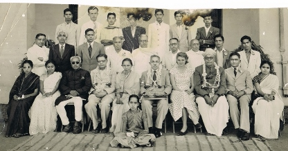 Group Photo at Maharaja's College, Mysore